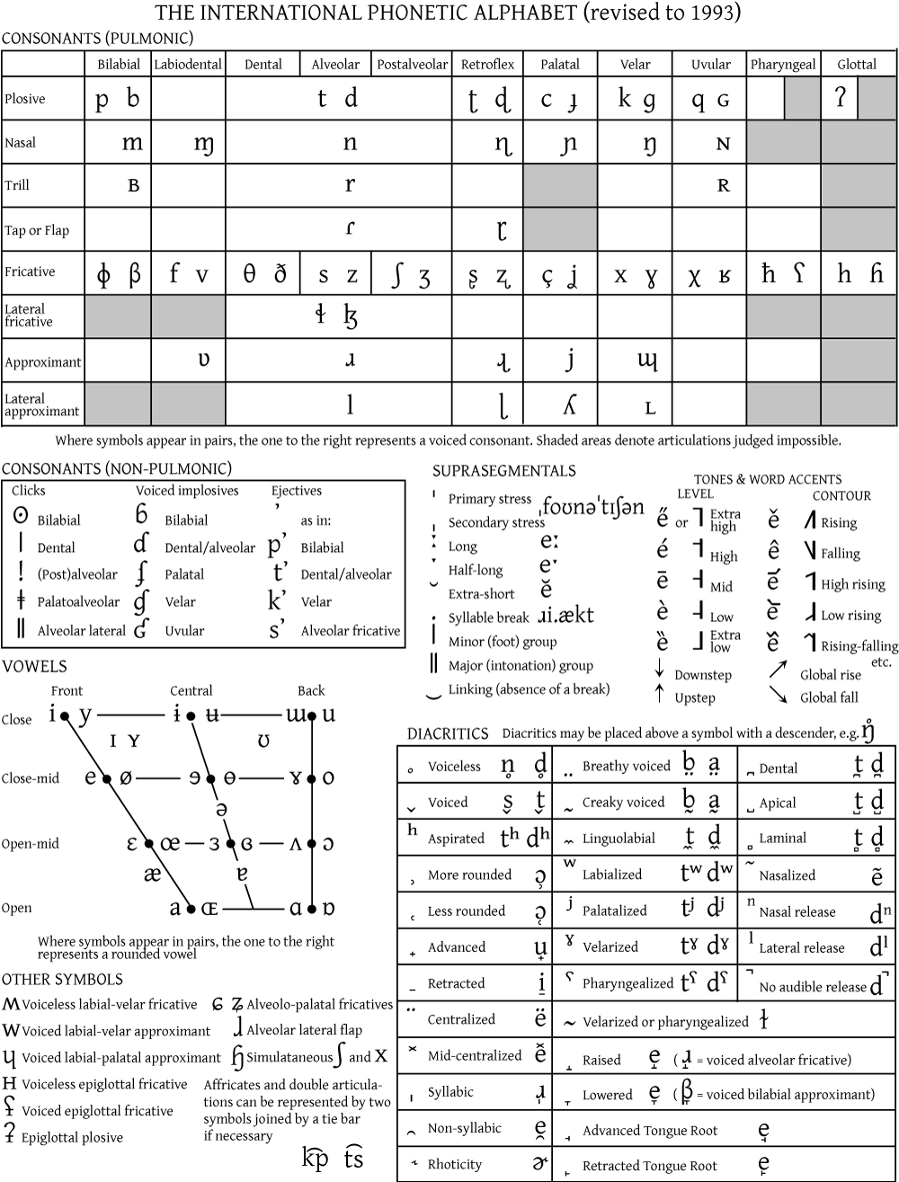 IPA Chart, revised 1993